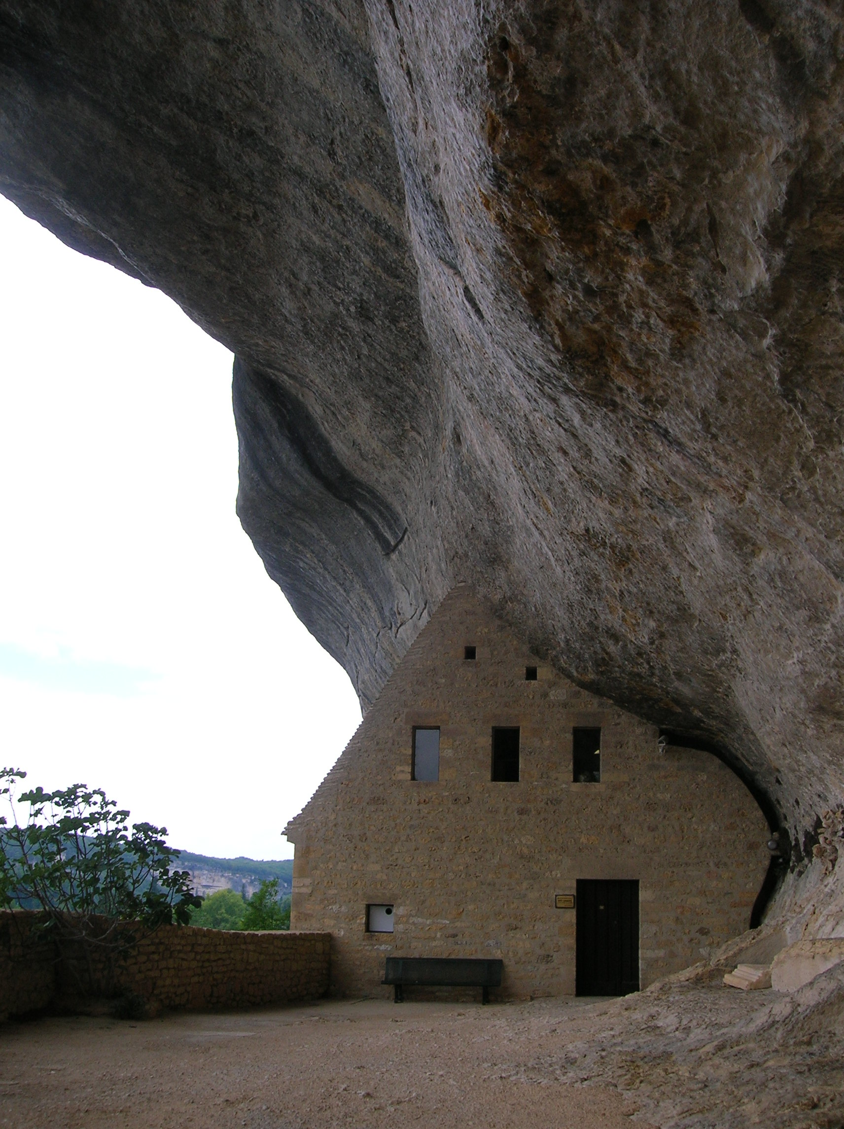 Troglodyte in Les Eyzies, Dordogne, France.